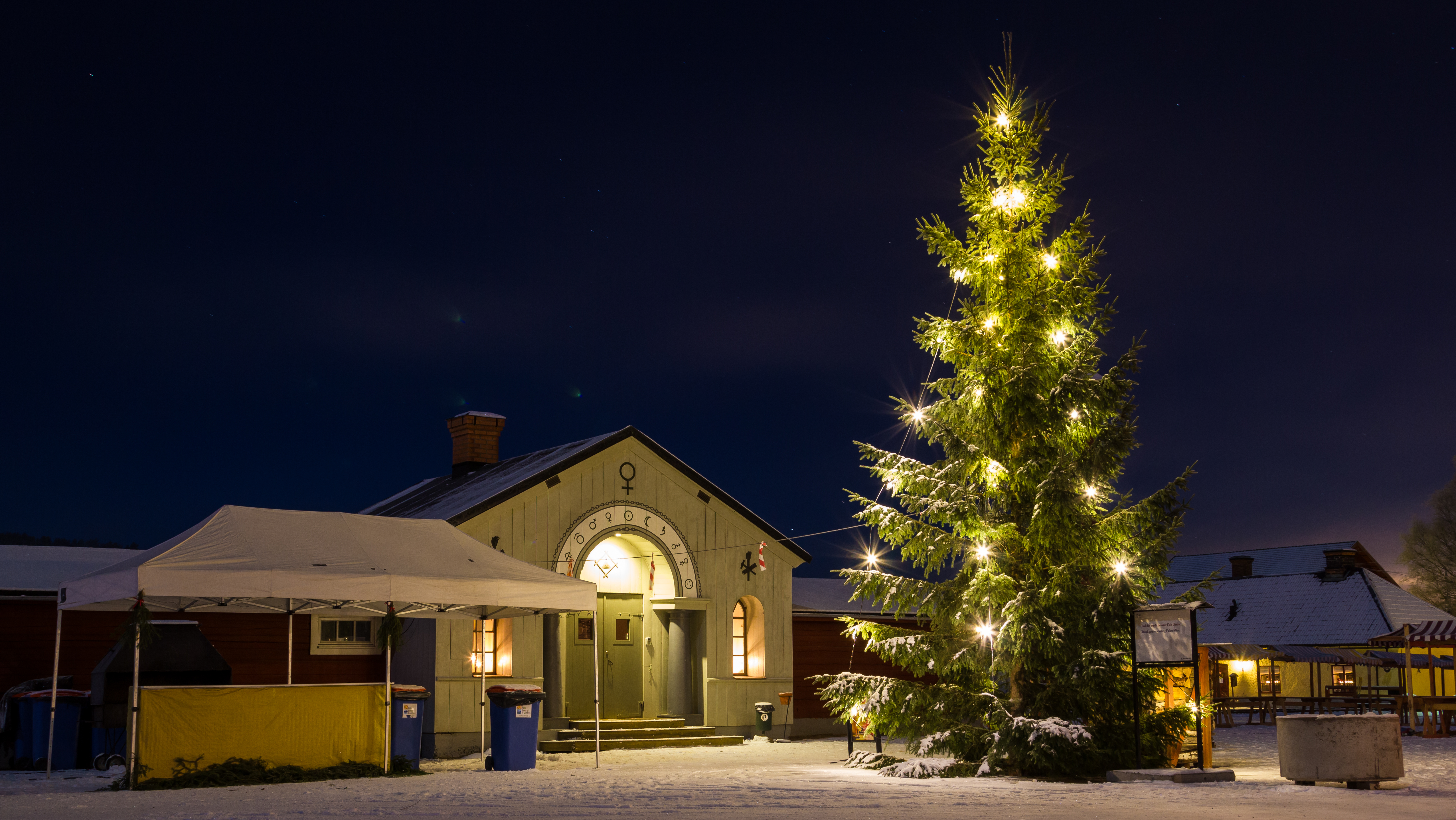 Entrance to the visitor's mine. Falun former copper mine, Sweden, in a light snowfall.